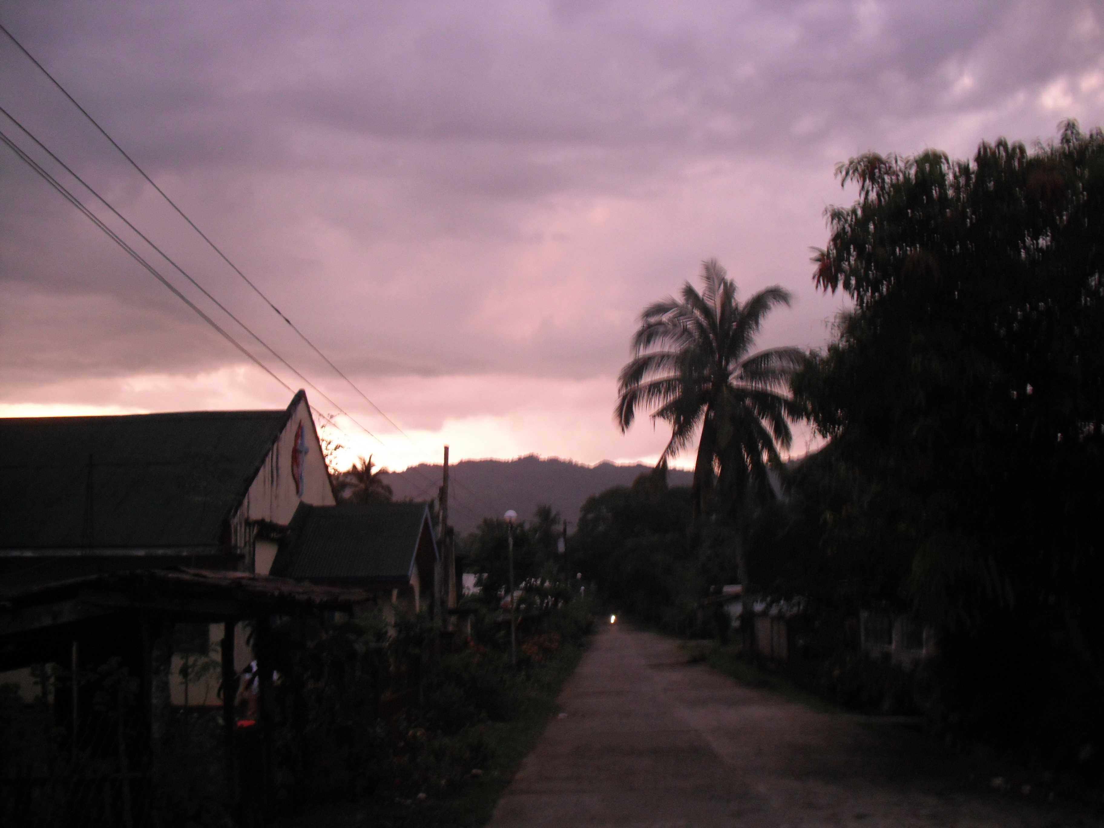 The tallest mountain in Cagayan